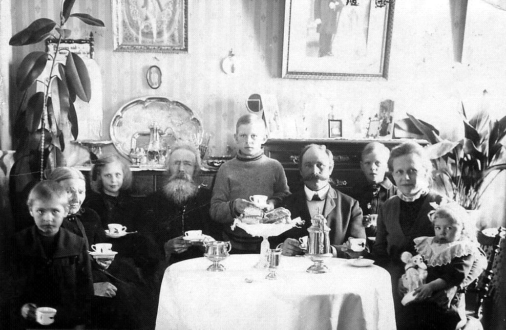 Anders Truedsson Selander (1841-1920), wife Sissa (Svensdotter), daughter Hanna Selander Pettersson, son-in-law K. G. Pettersson & Pettersson grandchildren (l-r) Anders, Svea (Fahlén), Hilmer, Gösta & Märta (Wikman), as released by image owner FamSACPlace: Söderhamn, Sweden